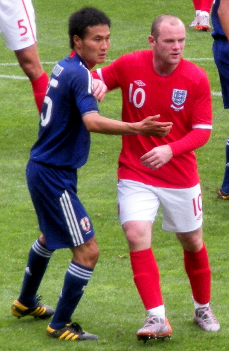 Yasuyuki Konno and Wayne Rooney, friendly between Japan and England in Graz (Austria) on 30 May 2010.